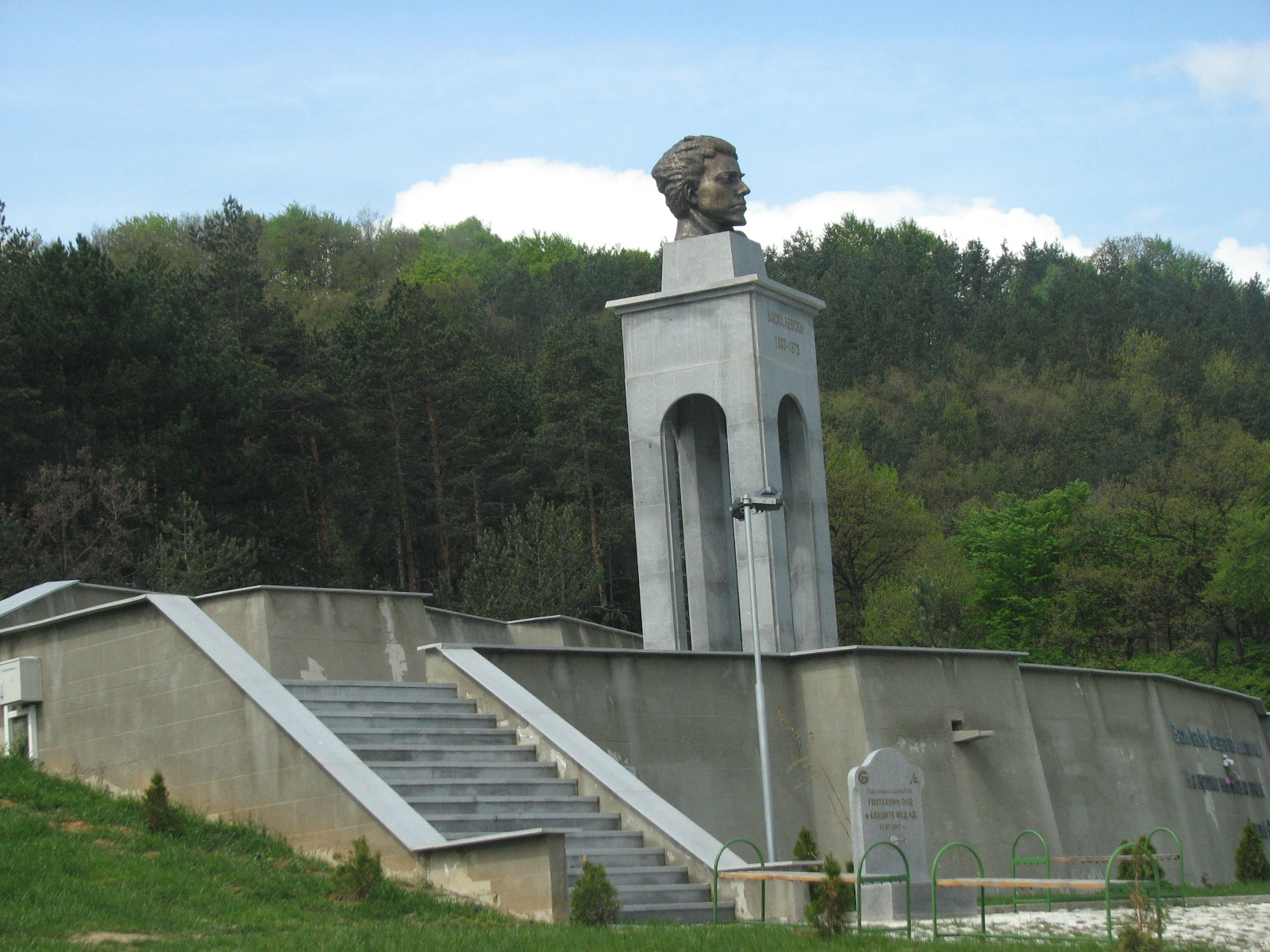 "Vasil Levski" memorial in the locality Gulubetz near village Bunovo